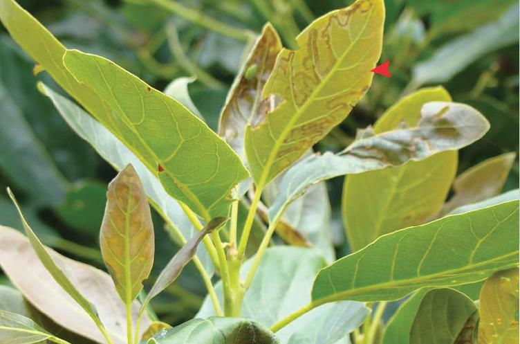 Phyllocnistis perseafolia, General habitus, note lower side mine (arrow)